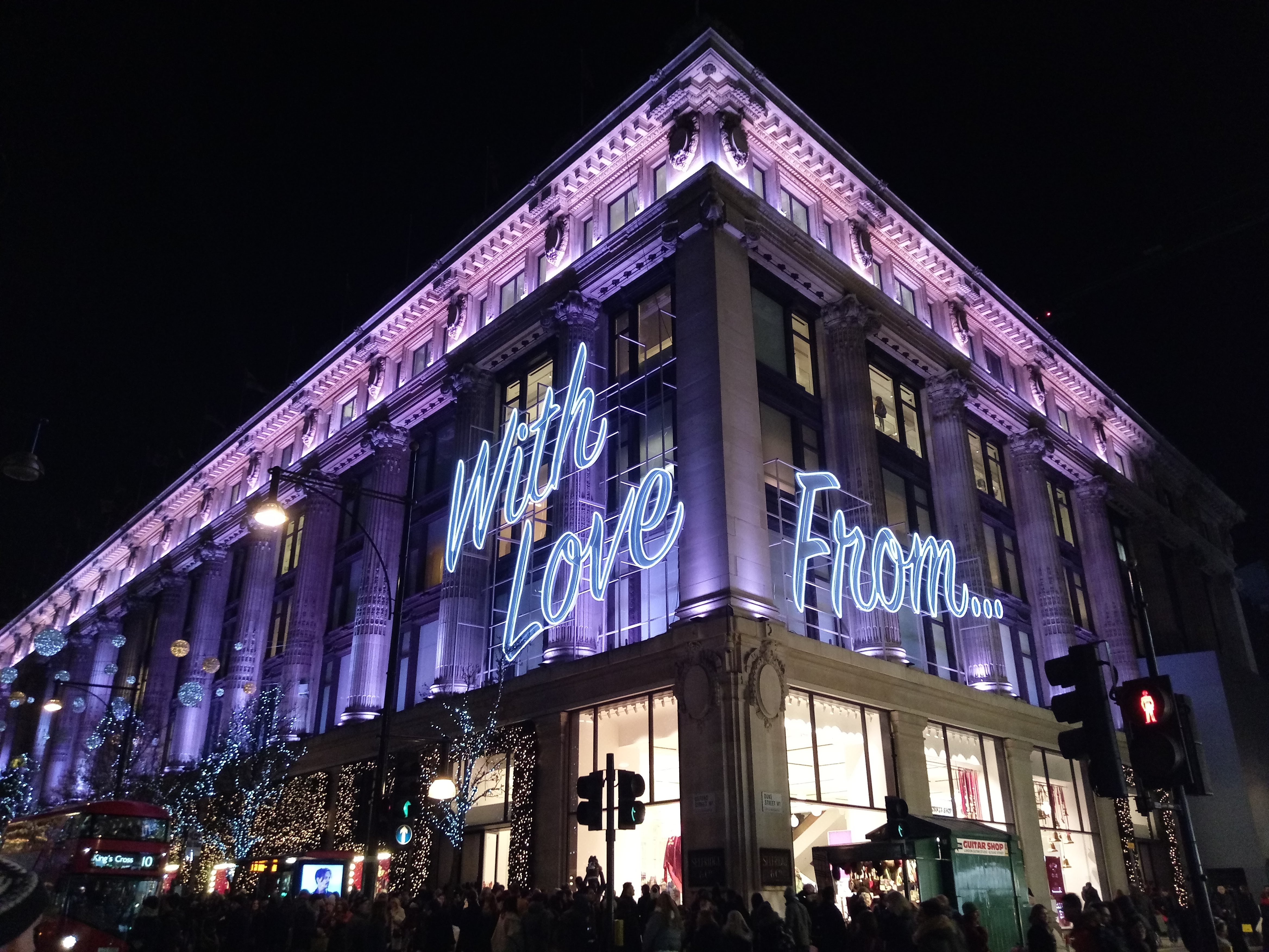 Christmas decorations in Oxford Street, London, United Kingdom during Christmas 2017